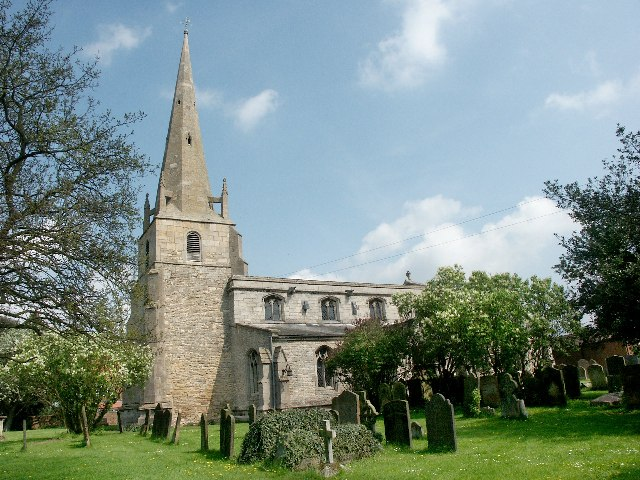 St Michael & All Angels, Billinghay. This delightful village church dates back to the 13th Century.